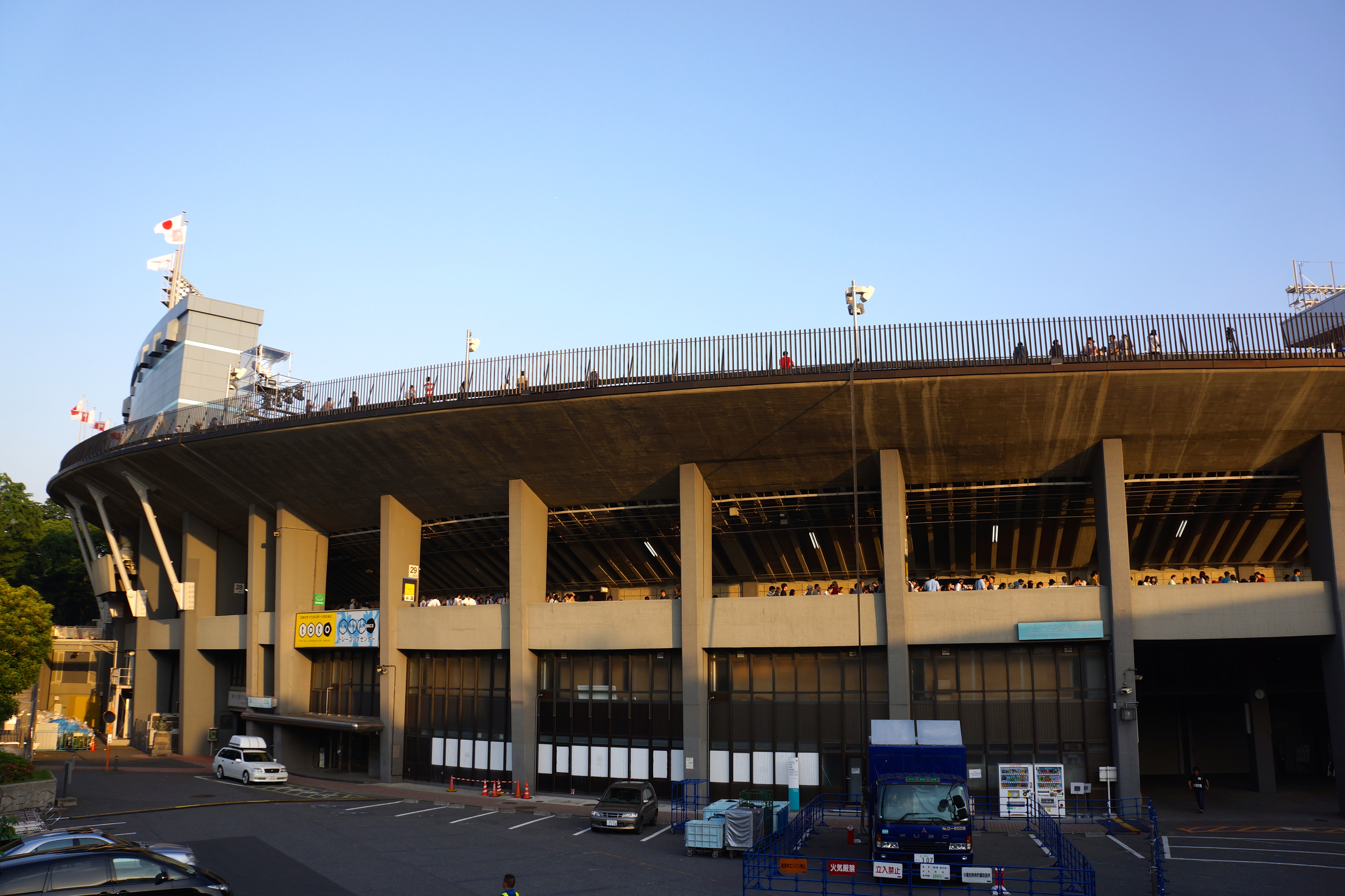 国立霞ヶ丘陸上競技場(National Olympic Stadium)